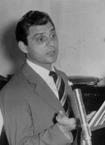 Tito Licausi- actor argentino